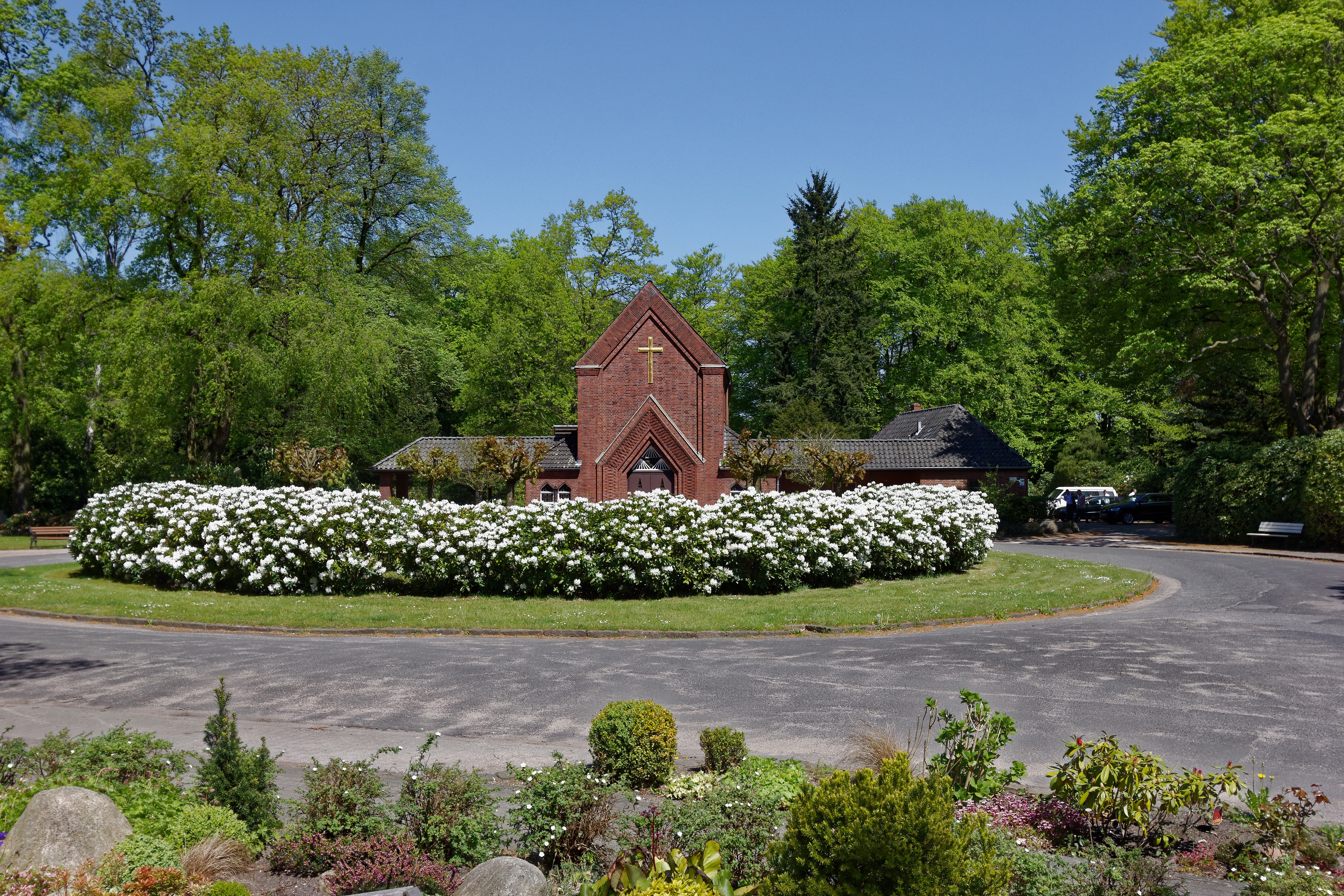 Hamburg, Entrance area of the cemetery "Groß Flottbek"This is a photograph of an architectural monument.